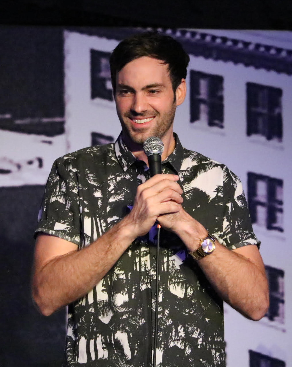 This image was taken at a recent comedy night in Phoenix, AZ